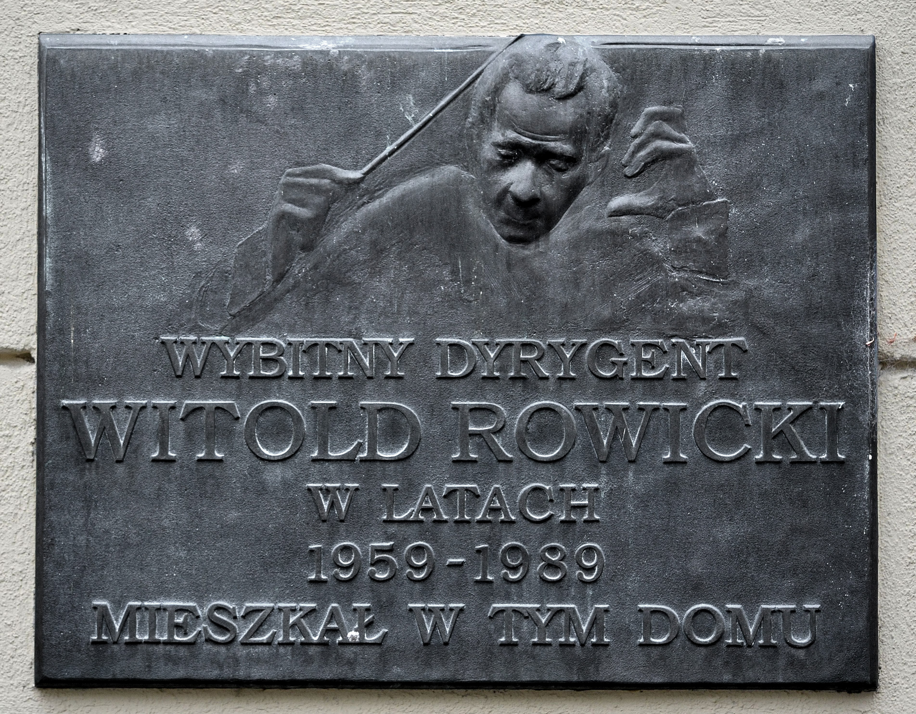 Plaque in memory of Witold Rowicki at 35 Chocimska Street in Warsaw